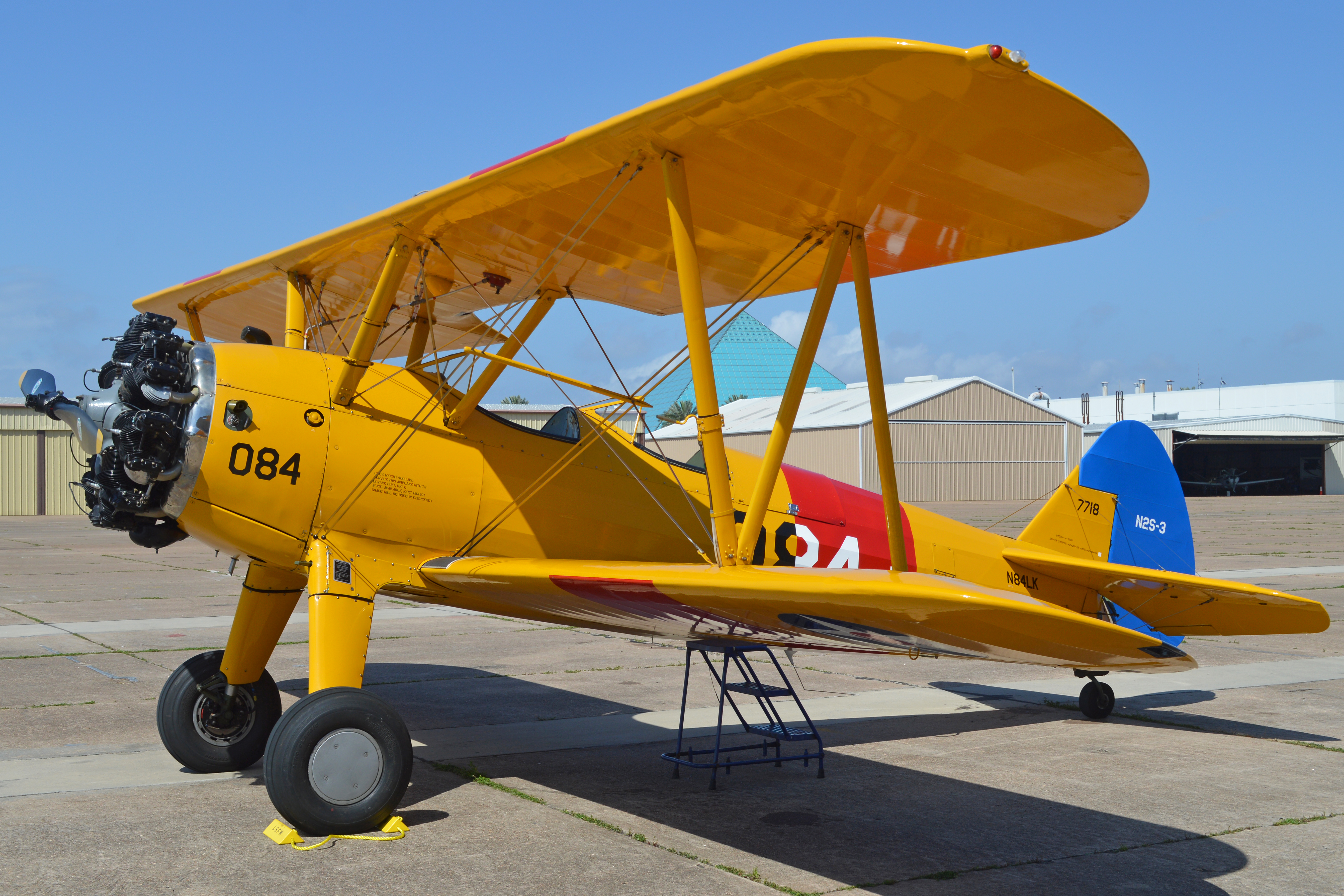 c/n 75-7322. Built in 1943 with the US Navy Bureau No 07718. Now part of the Lone Star Flight Museum and seen in between ‘rides’, outside the hangars at the museum’s previous location in Galveston, Texas, United States. 18th March 2017